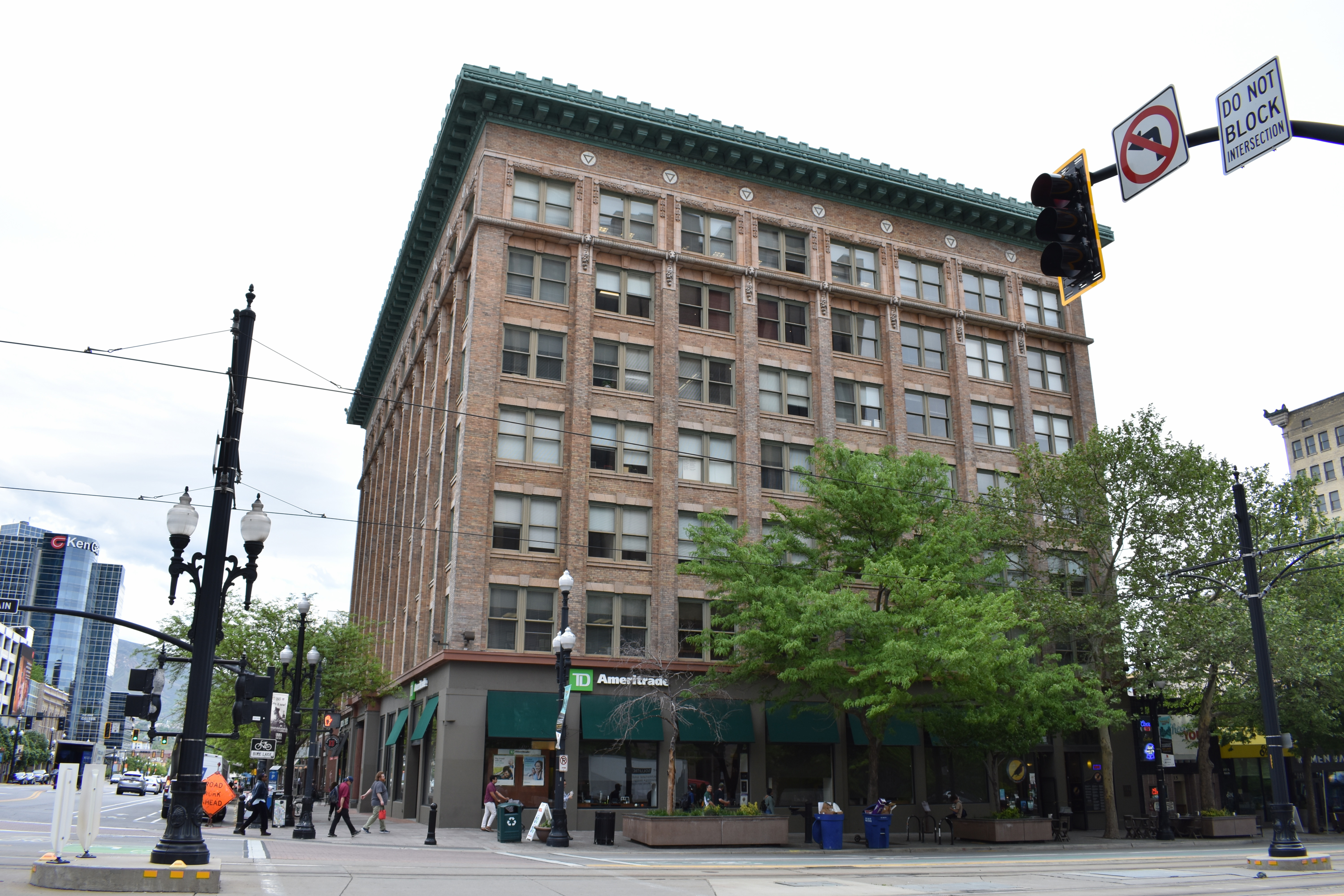 The Judge Building (1907) in Salt Lake City was designed by David C. Dart and was constructed in 1907. The building is listed on the National Register of Historic Places.